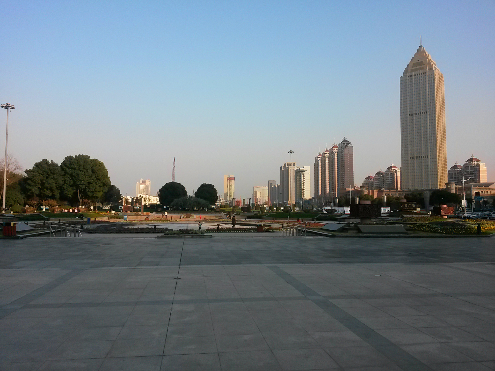 Renmin Square (Xiaoshan District)